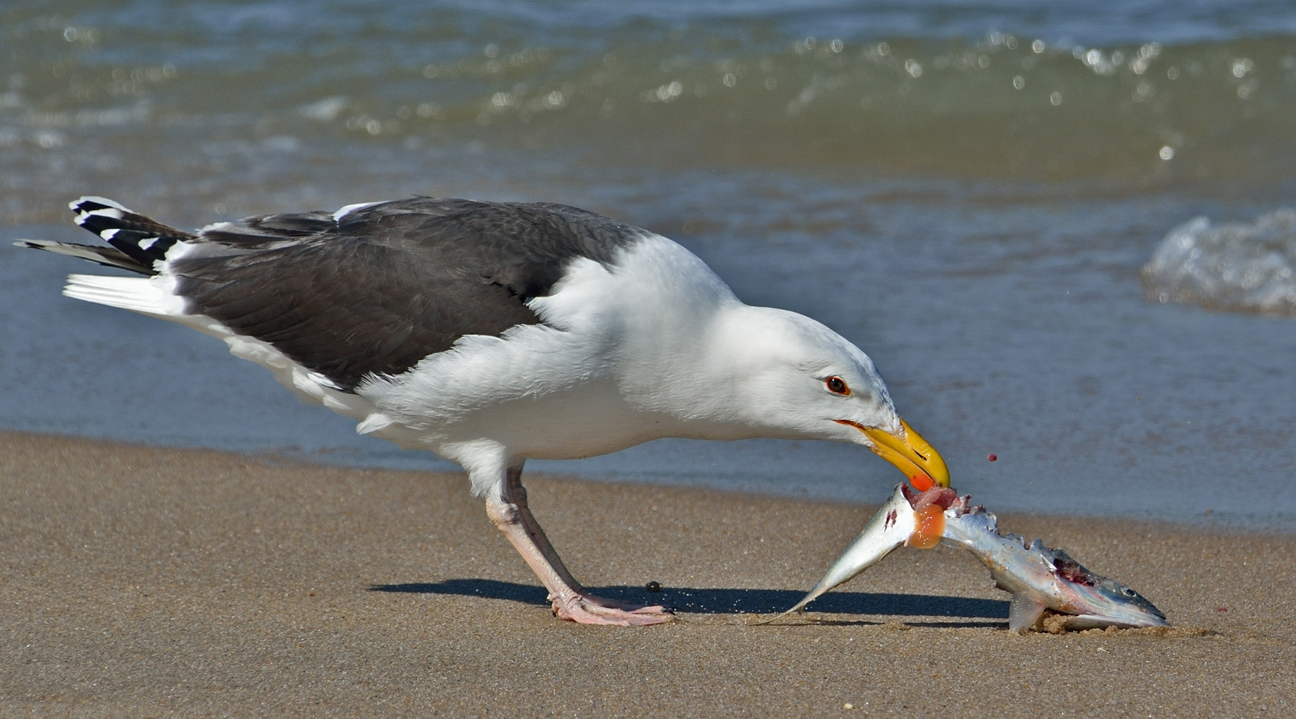 Great Black-backed Gull Larus marinus adult picking on fish, Sandy Hook, New Jersey, USA.